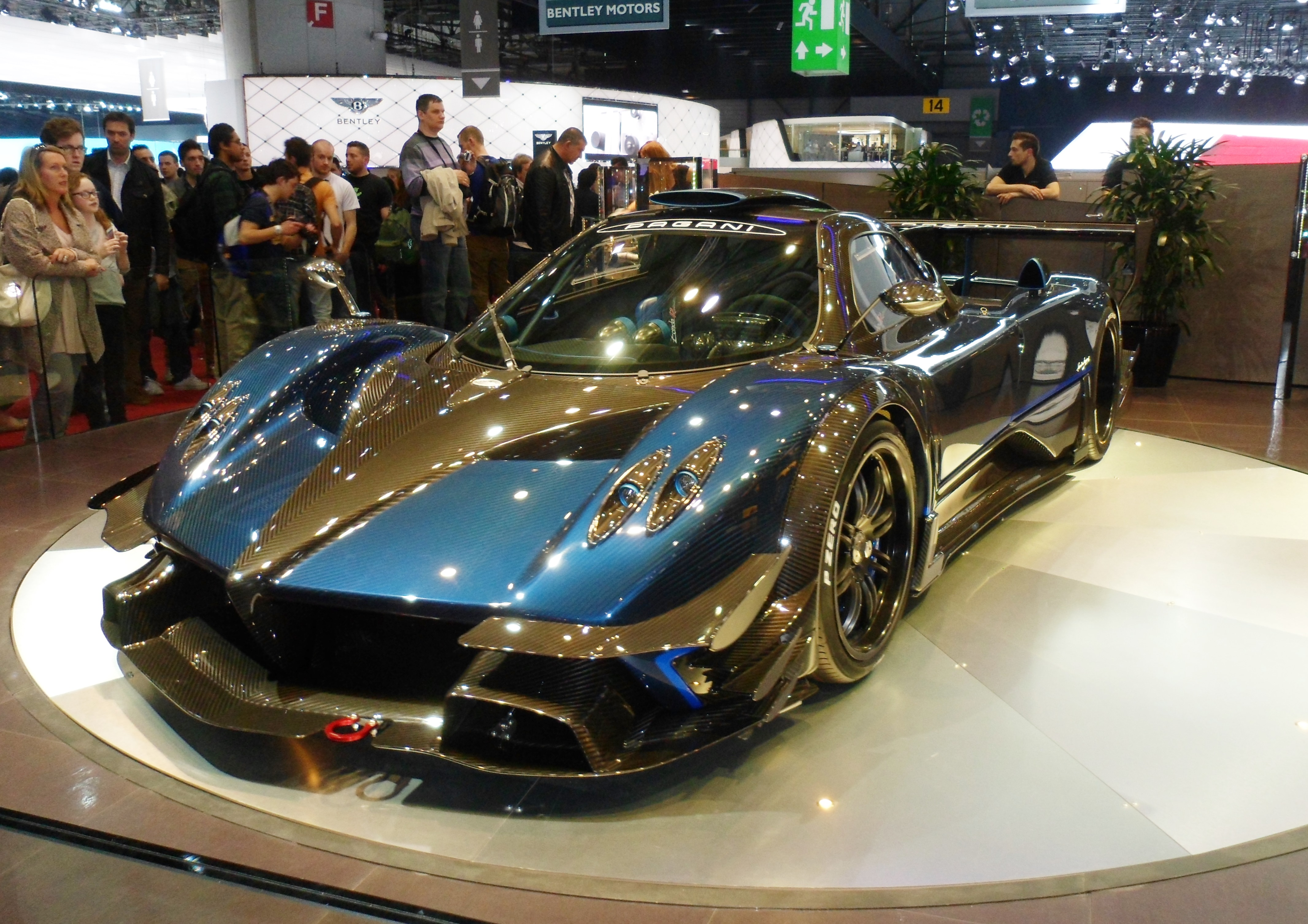 Pagani Zonda Revolucion at Geneva Motor Show 2014